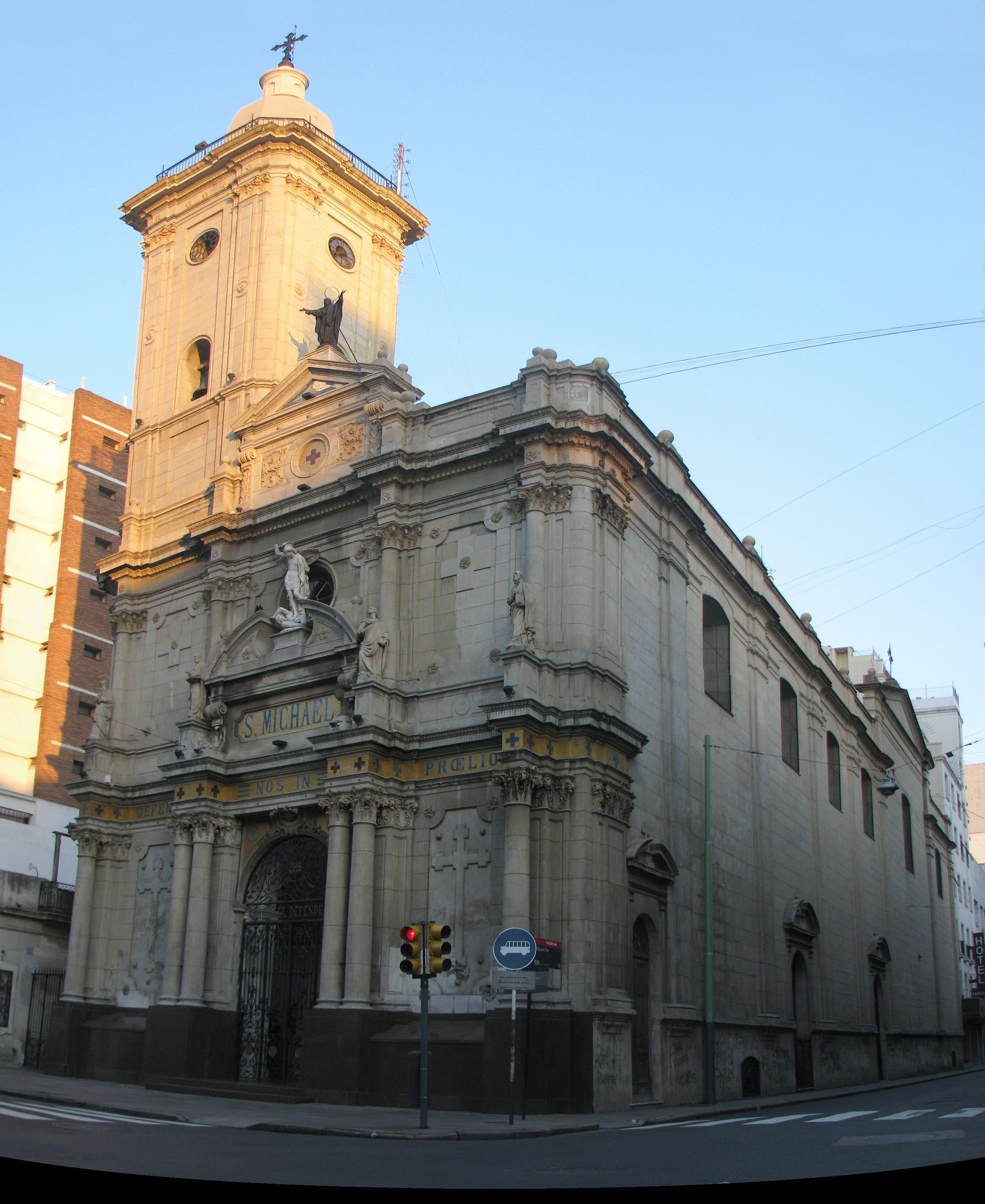 Church of St. Michael Archangel, Mitre and Suipacha Streets, Buenos Aires, Argentina. This picture was stitched together from several photos, using Hugin.